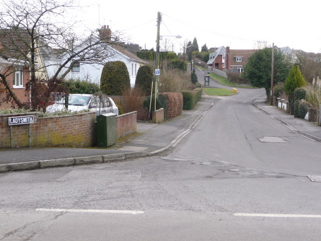 East Gomeldon: Ladysmith and telephone box East Gomeldon's phone box is in the distance, down this residential street called Ladysmith.